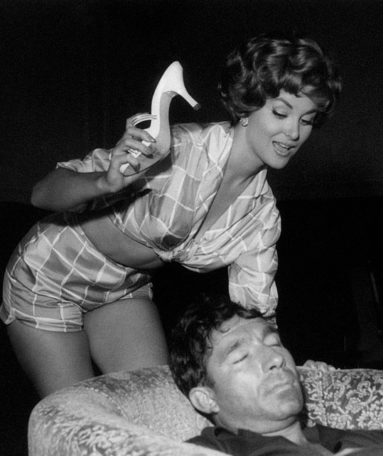 The French actress Christiane Martel, voted Miss Universe in 1953, tries to awaken with a shoe the Italian actor Ugo Tognazzi, who placidly sleeps on an armchair, during the filming of Tipi da Spiaggia. Italy, 1959.